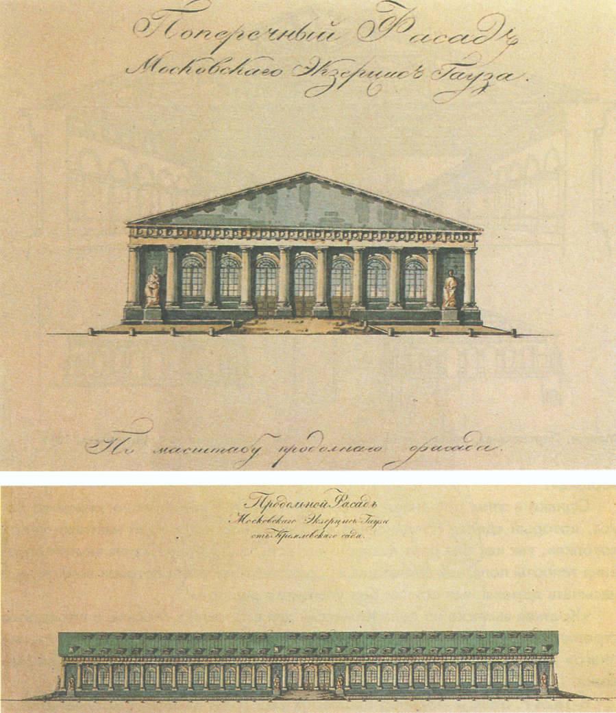 Moscow Manege. Page from architectural album of it's inspection 1825 (Aльбом комиссии для строений)